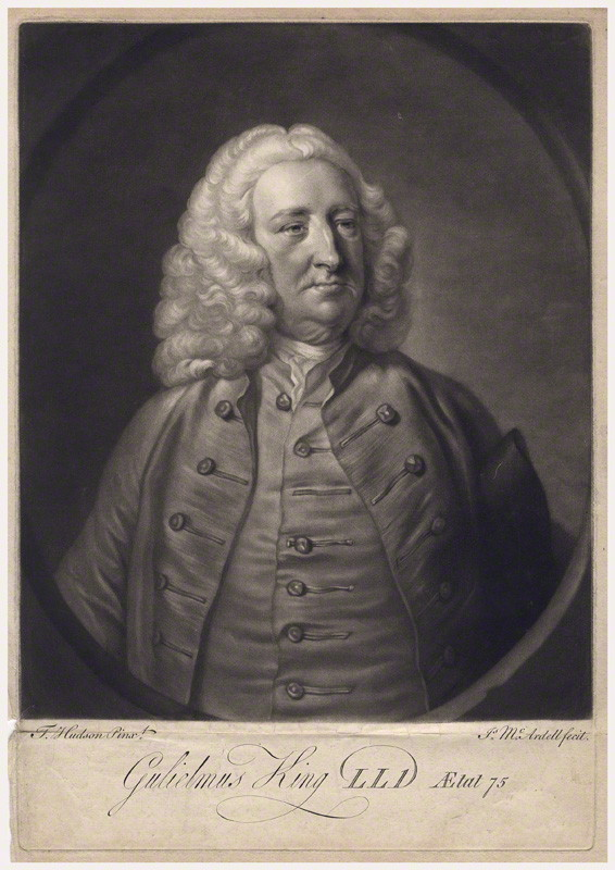 Portrait of William King (1685–1763), Oxford University academic and poet.